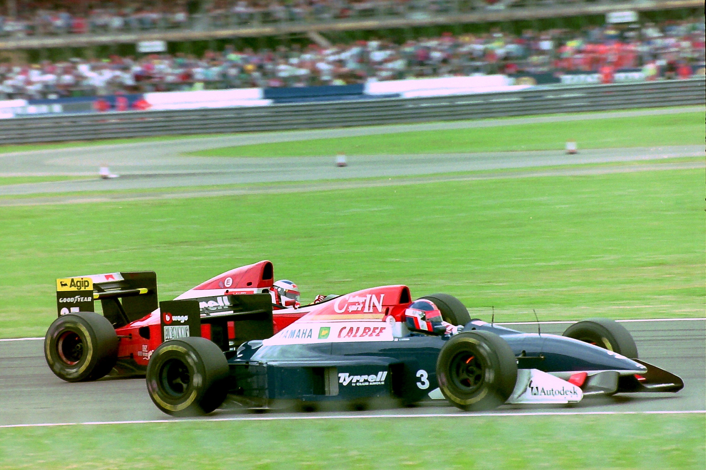 Jean Alesi - Ferrari F193A dives inside Ukyo Katayama - Tyrrell 020C at the 1993 British Grand Prix